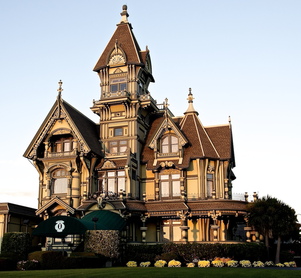 The Carson Mansion - is a Queen Anne Victorian mansion at 143 M Street in Eureka, Northern California. Built for lumber baron William Carson, the building is a private club, not open to the public and is not a registered state or historic landmark.